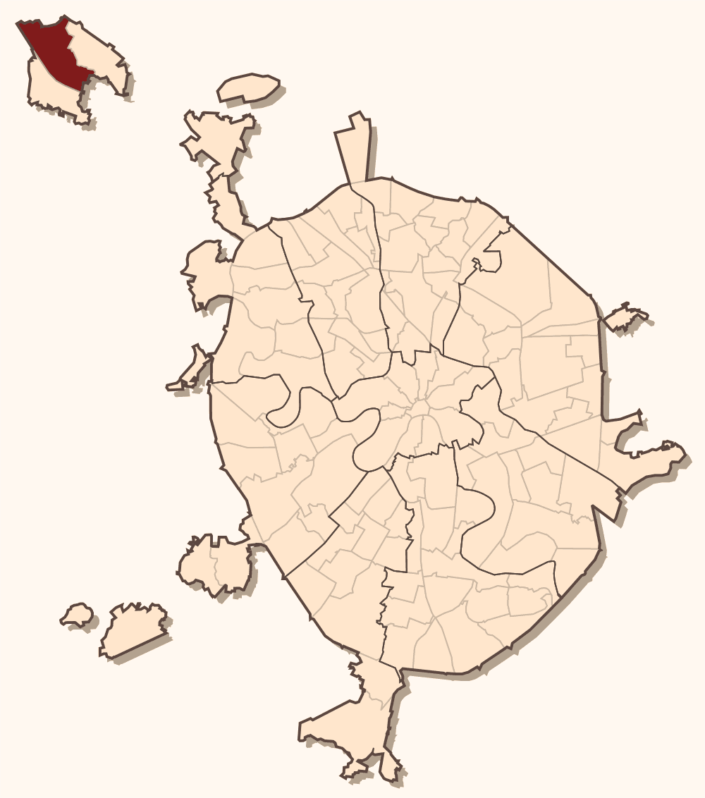 Moscow districts map. Panfilovsky district (2002-2010)